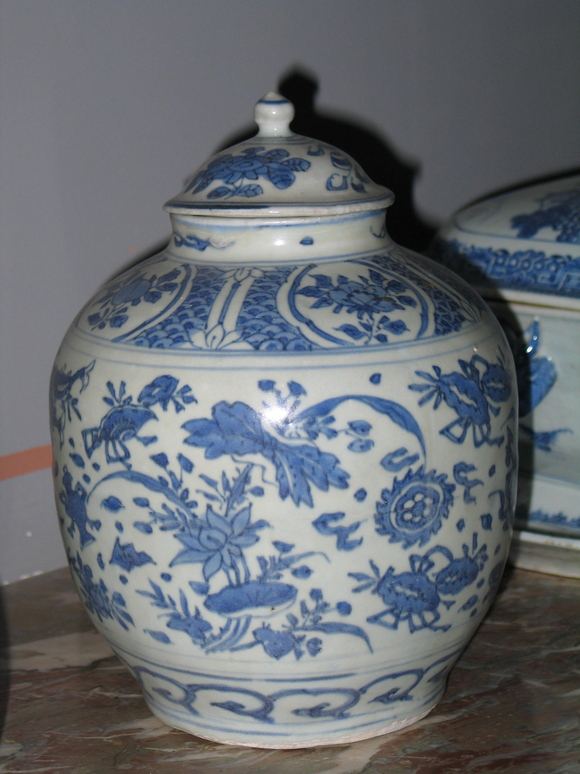 Ginger jar, for more than 300 hundred years on the bottom of the sea, now in Museum Geelvinck-Hinlopen Huis